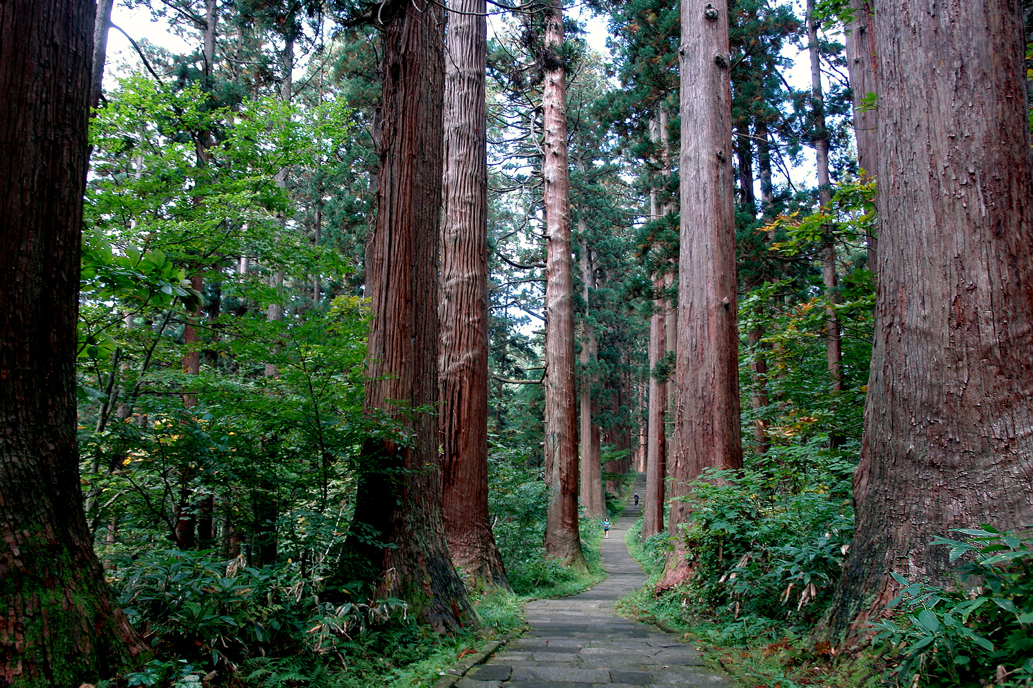 Ideha jinja pathway